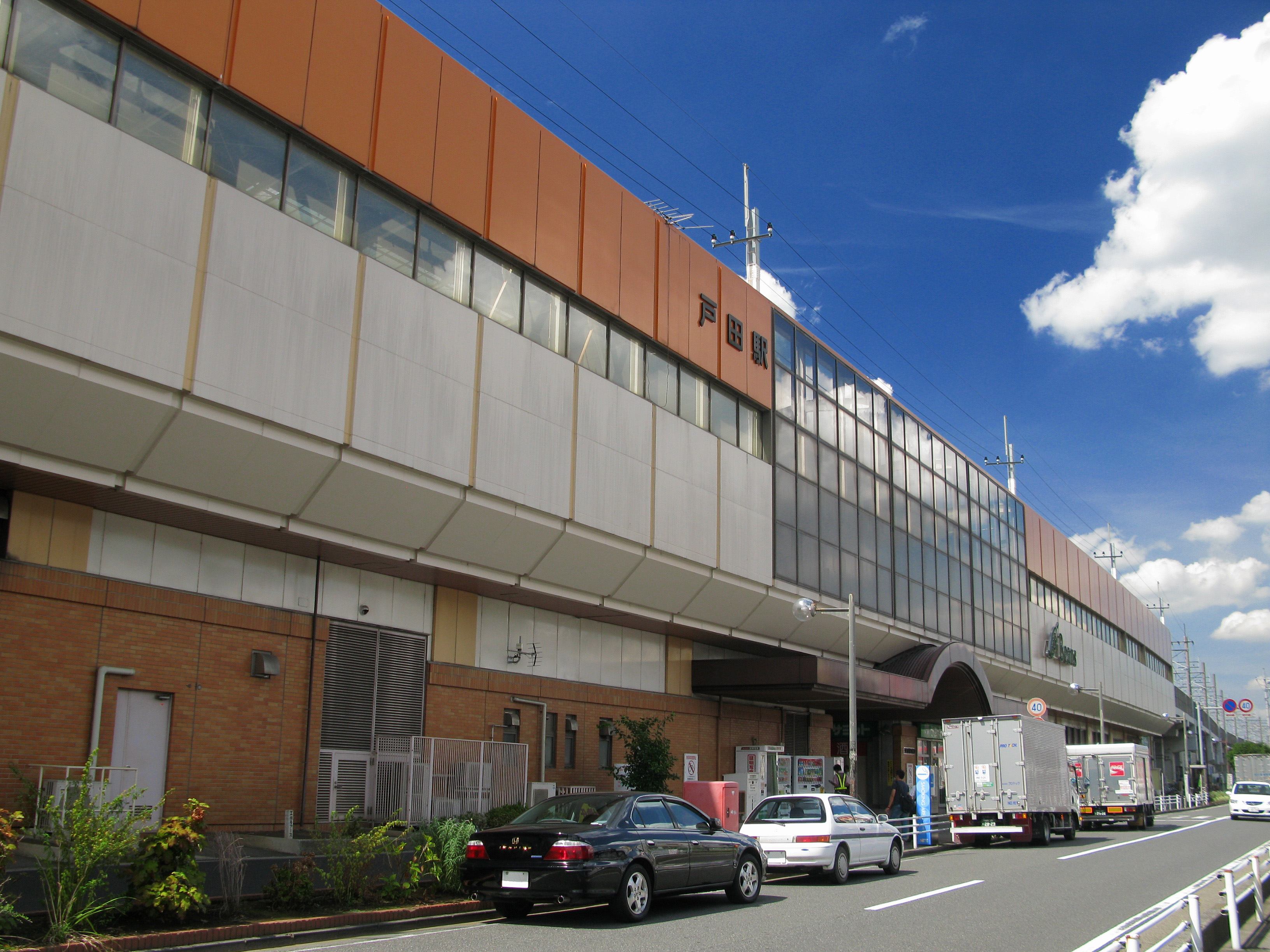 East entrance of Toda Station on the Saikyo Line in Toda, Saitama Prefecture, Japan